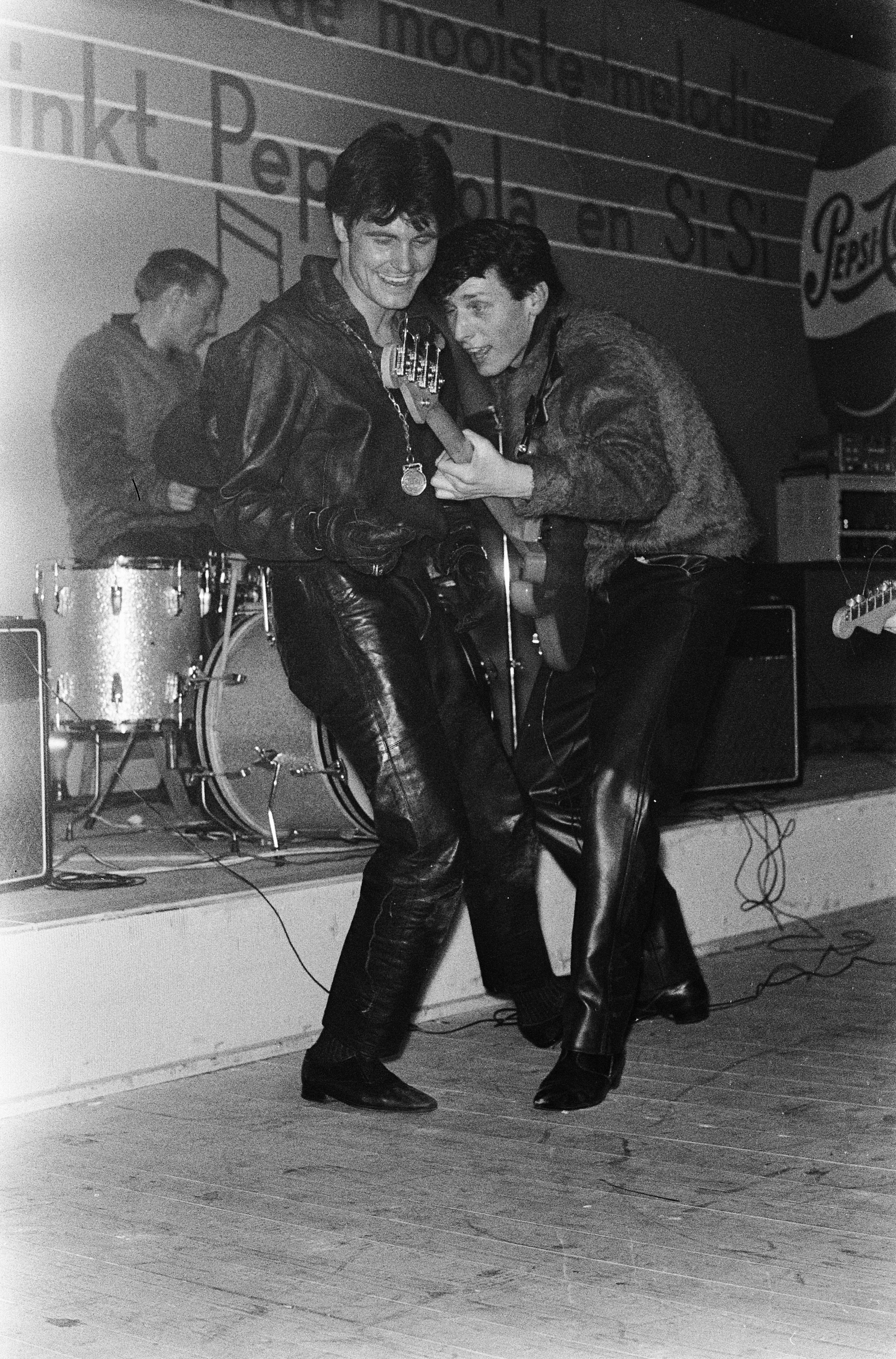 Vince Taylor during a concert in Blokker (the Netherlands), 23 May 1963. Left: drummer Bobbie Clarke (Robert William Woodman). Right: possibly bass player Douggie Reece or Johnny Vance (=David John Cobb)?